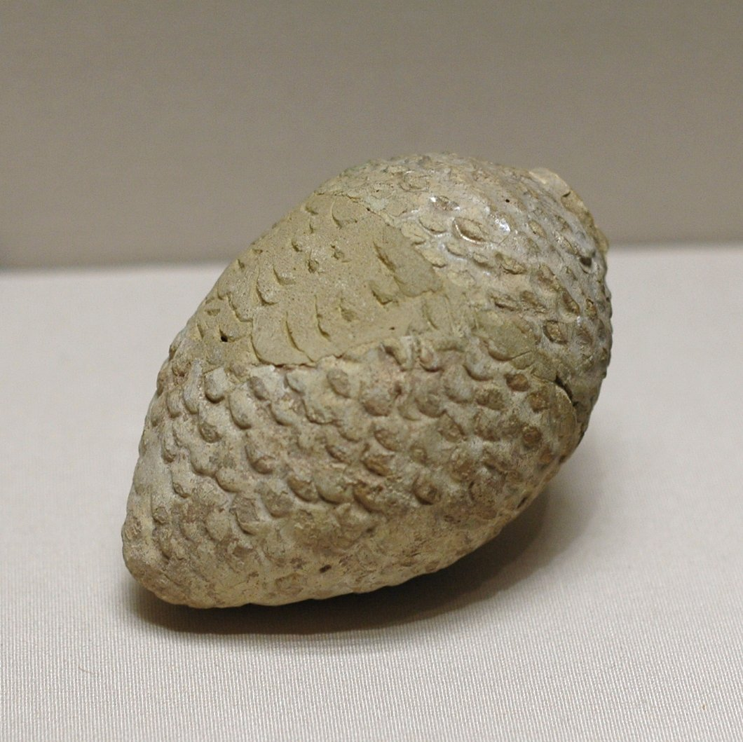 Spheroconical container (use unknown).